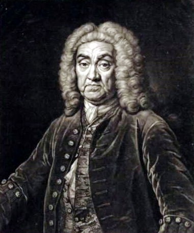 John James Heidegger (1659-1749) by John Faber (1695-1756) after Jean-Baptiste van Loo (1684-1745).